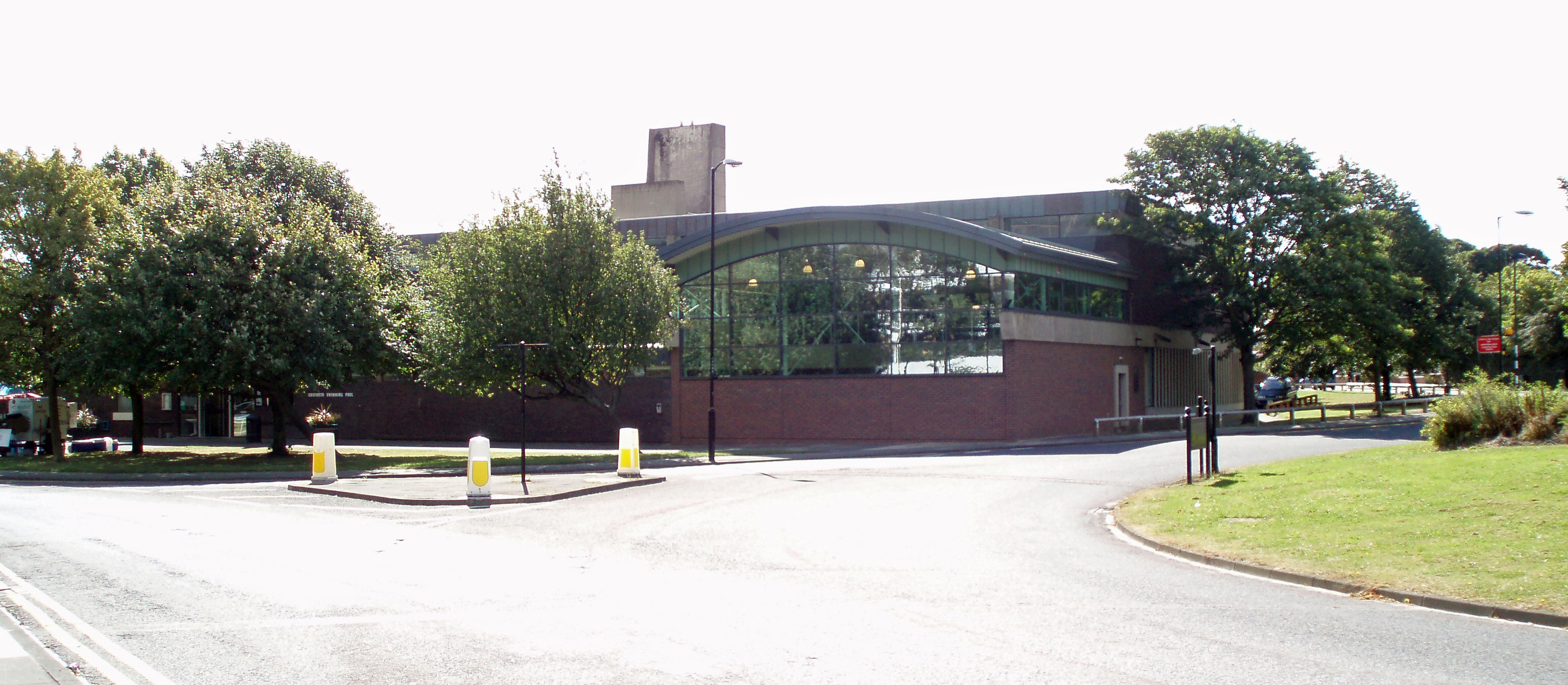 This is a view of Gosforth Swimming Pool in Gosforth, Newcastle upon Tyne, England.